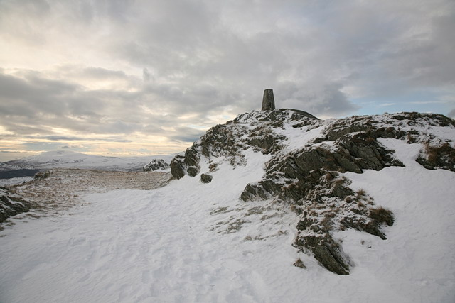 Summit Trig Point on Caw, Dunnerdale Fells Black Combe is the distant summit on the left horizon.